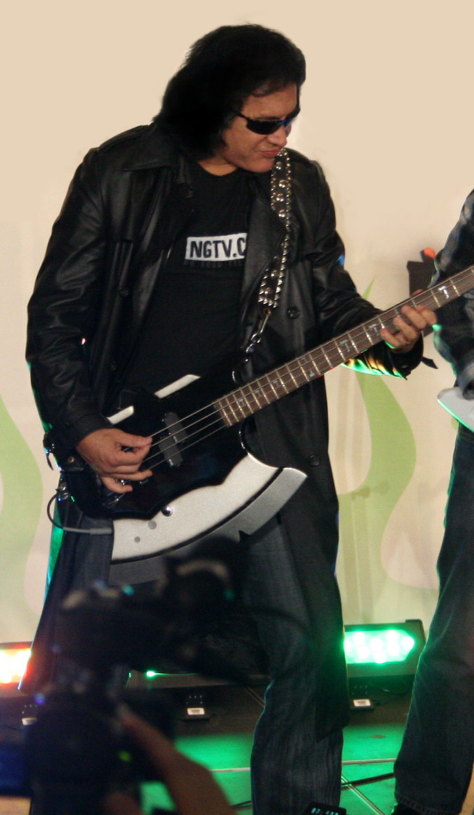 Gene Simmons, singer and bassist of Kiss